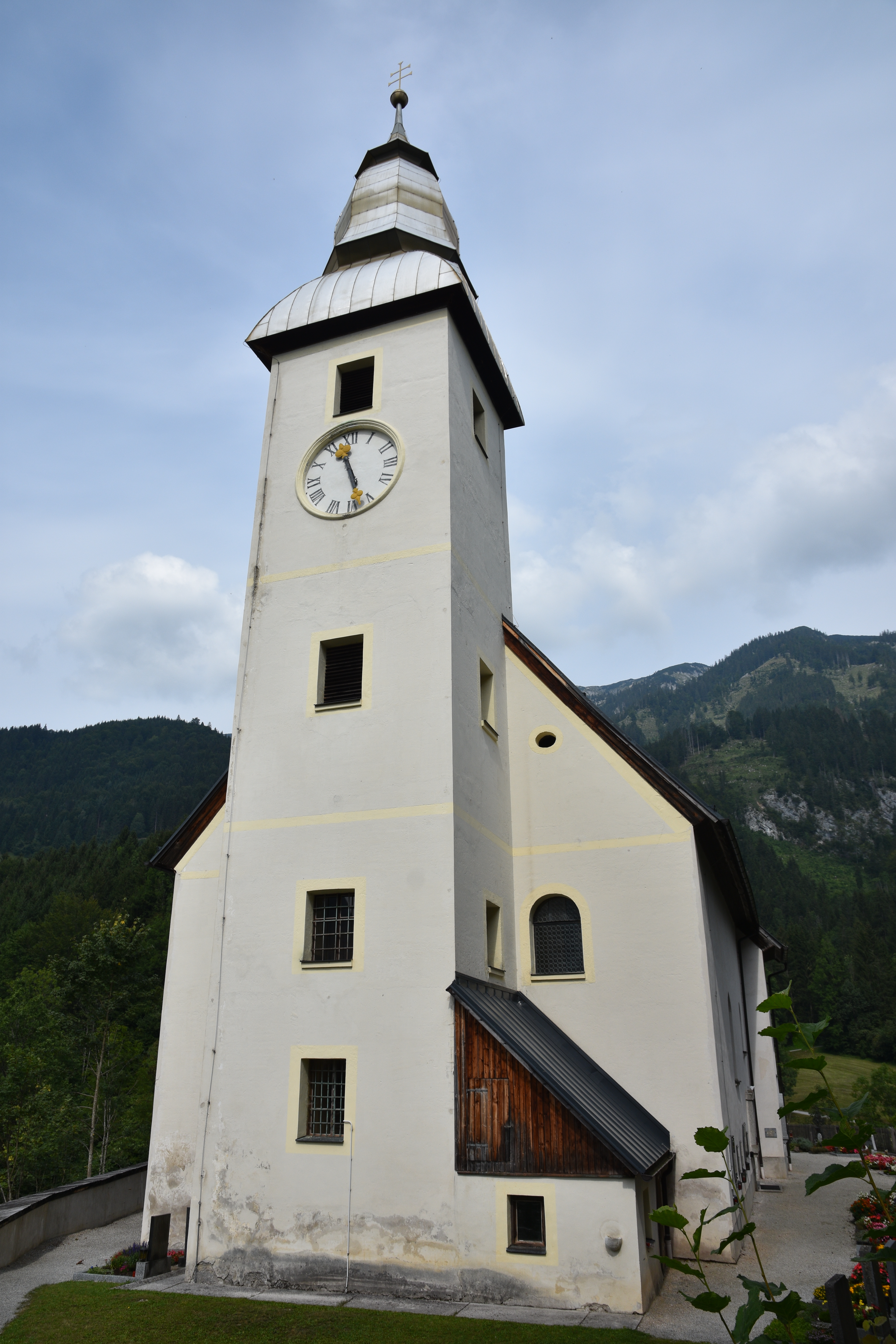 Church Kath. Pfarrkirche Allerheiligen mit Friedhof Palfau